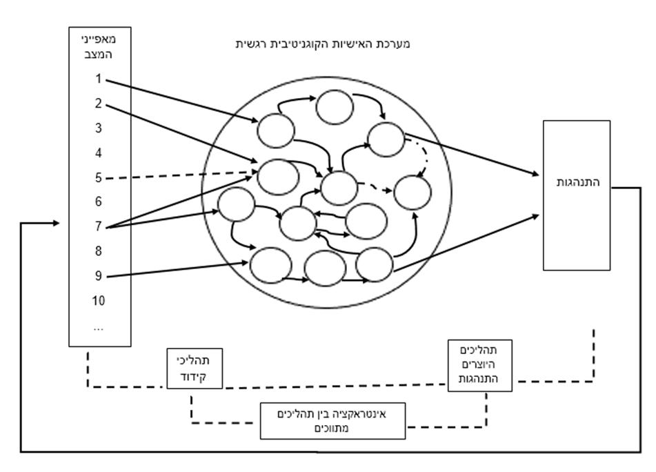 Model of the cognitive-affective personality system adapted from Mischel, Walter,Shoda, Yuichi מודל של תיאוריית המערכת הקוגניטיבית רגשית של האישיות